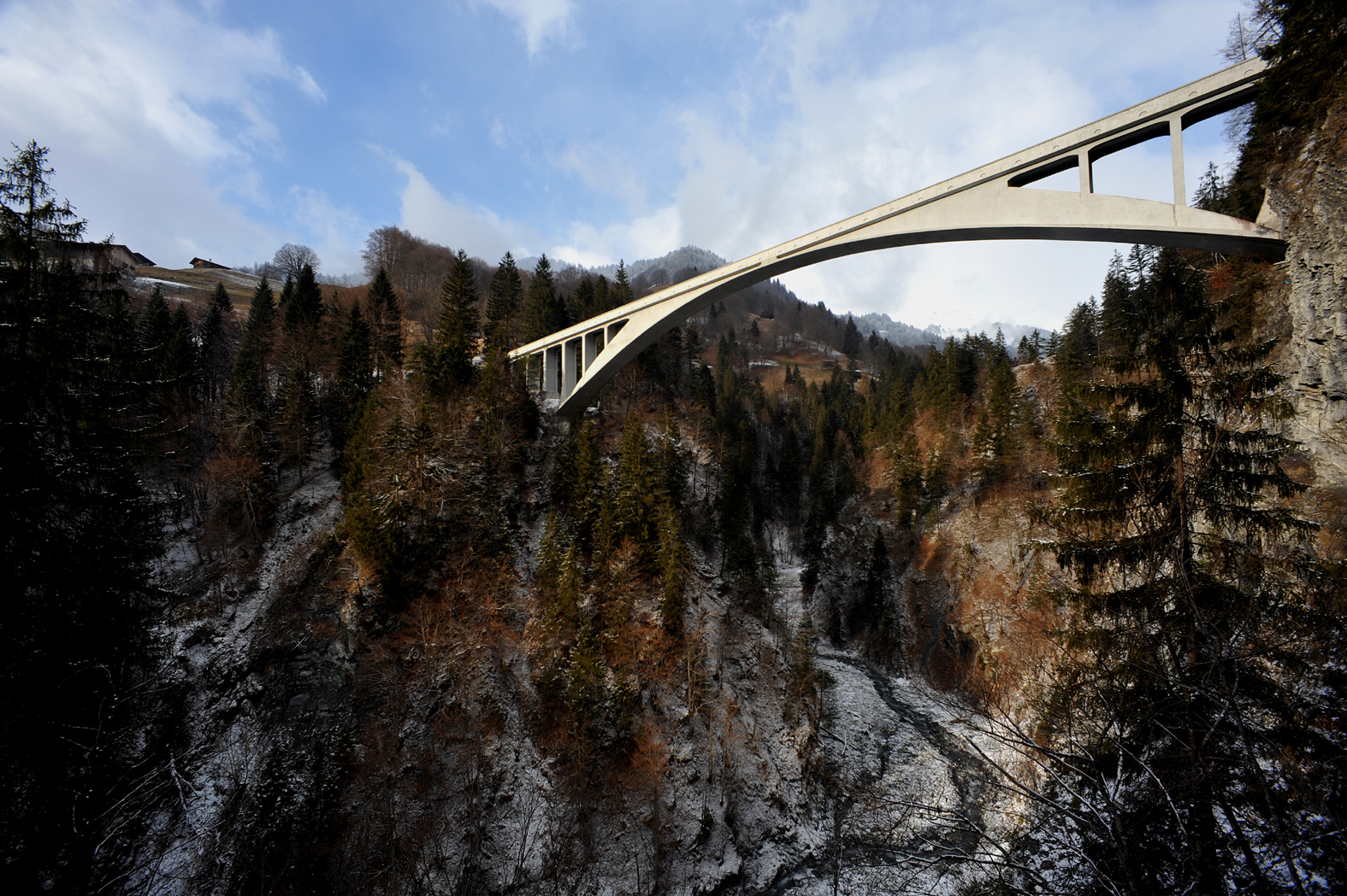 Salginatobel bridge by Robert Maillart over the Salgina between Schiers and Schuders, 1930; Graubünden, Switzerland.